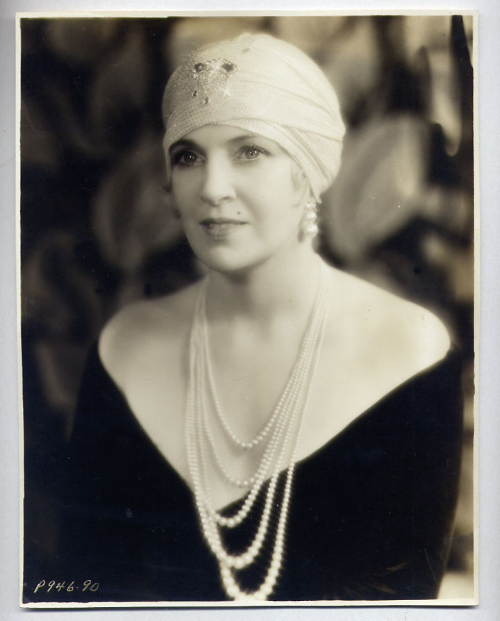 Publicity photo of Olga Baclanova